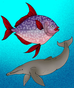 Reconstruction of the Late Oligocene opah Megalampris keyesi and the squalodontid-like whale Waipatia maerewhenua. From "The Earthquakes" formation in North Otago, New Zealand.